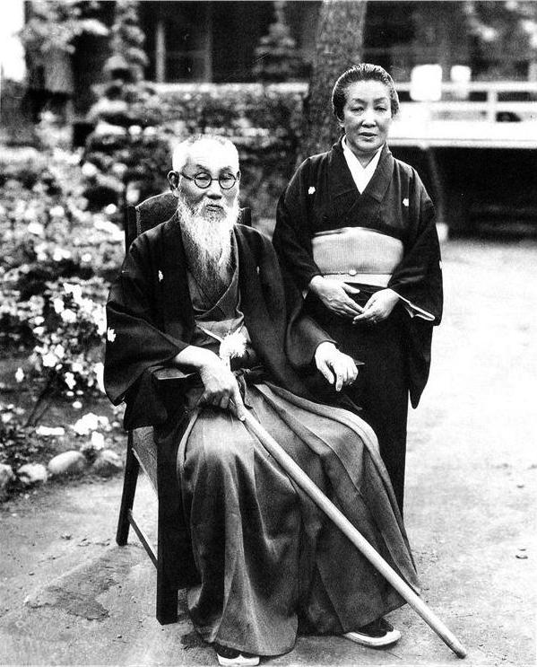 Mitsuru Tōyama(頭山 満,27 May 1855 - 5 October 1944) with the wife.